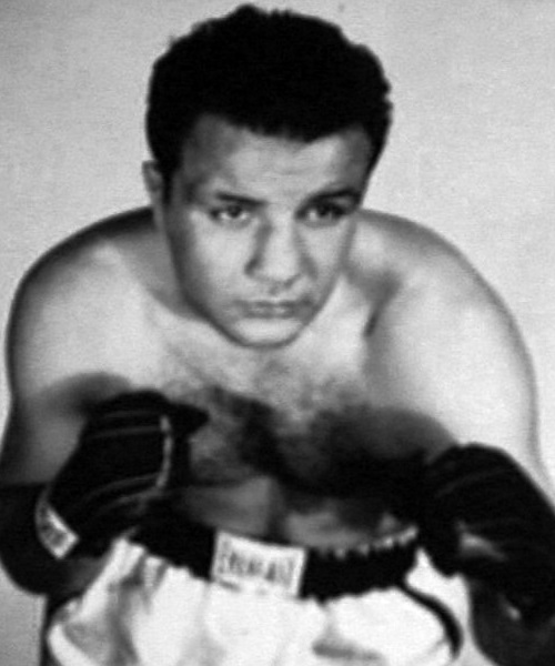 Postcard photo of boxer Jake LaMotta written and signed by him in 1952.